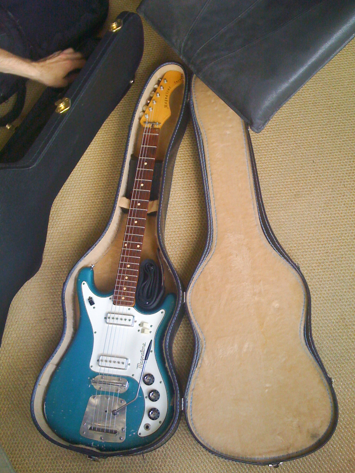 Magnatone is swedish for "hot tone"